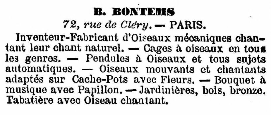 Advertisement of the parisian automata maker Bontems published in "Catalogue général descriptif de l'exposition. Section française" Exposition universelle de Paris 1878.